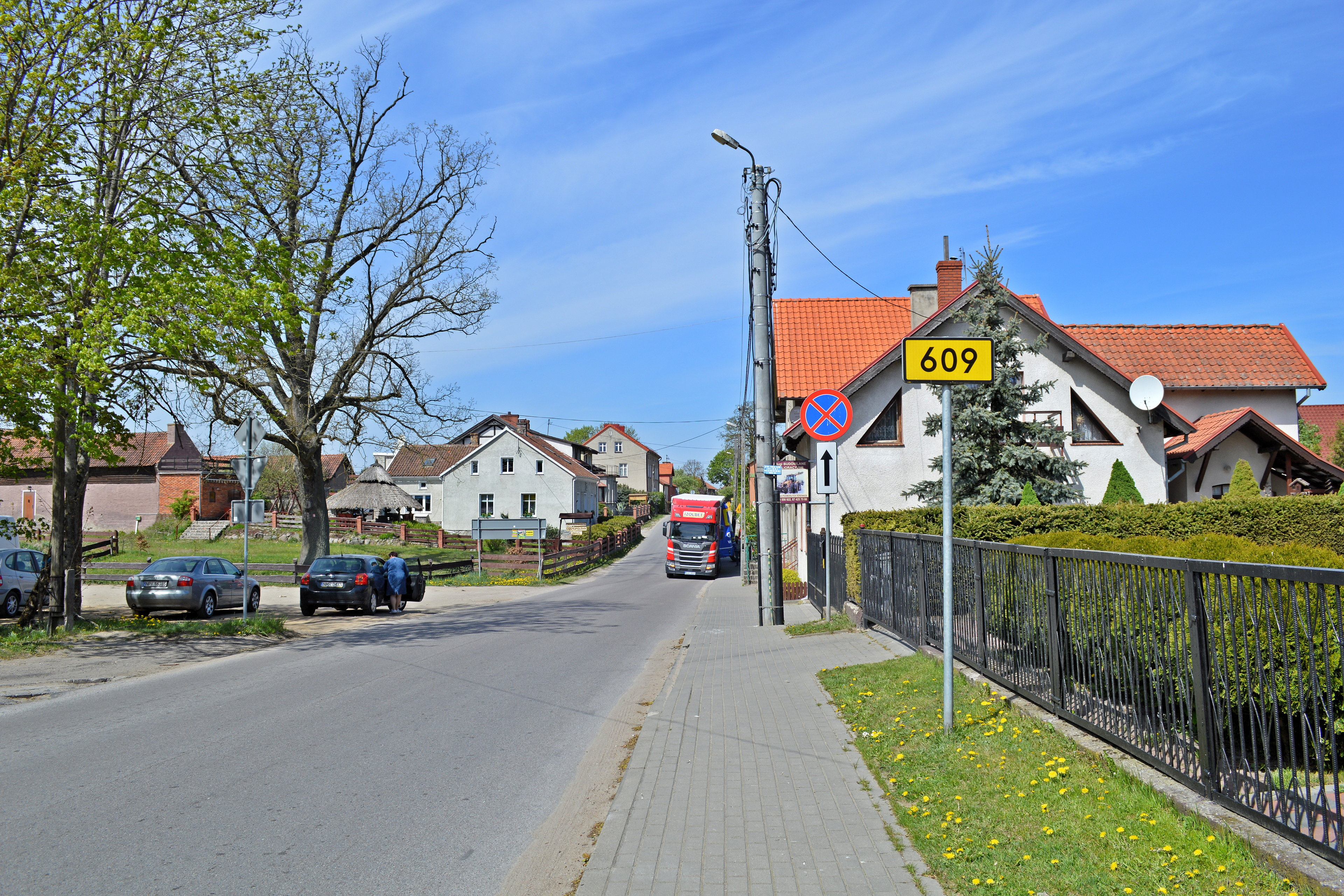 Ukta - Droga wojewódzka 609 road in direction north to Mikołajki.